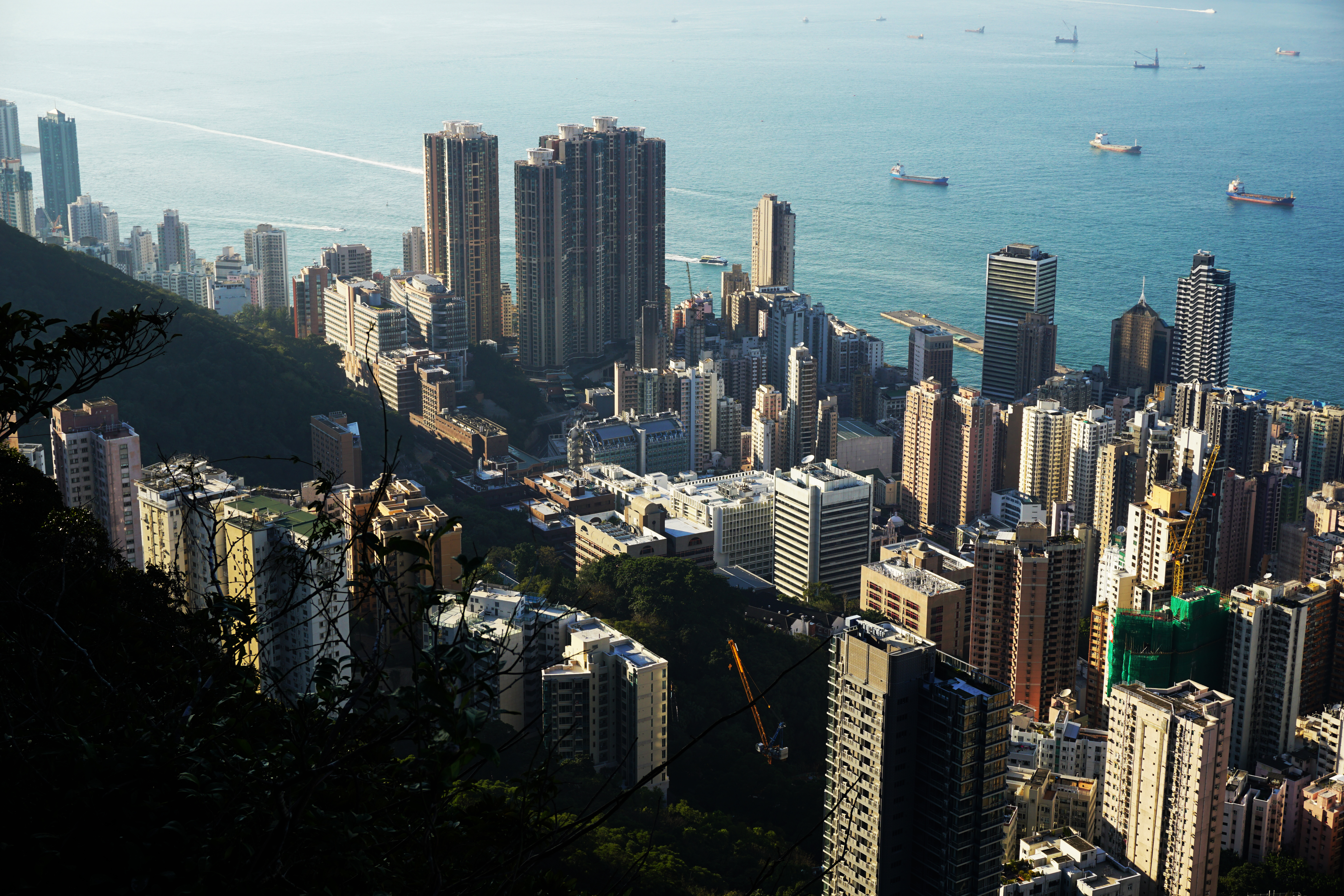 Shek Tong Tsui in Hong Kong.